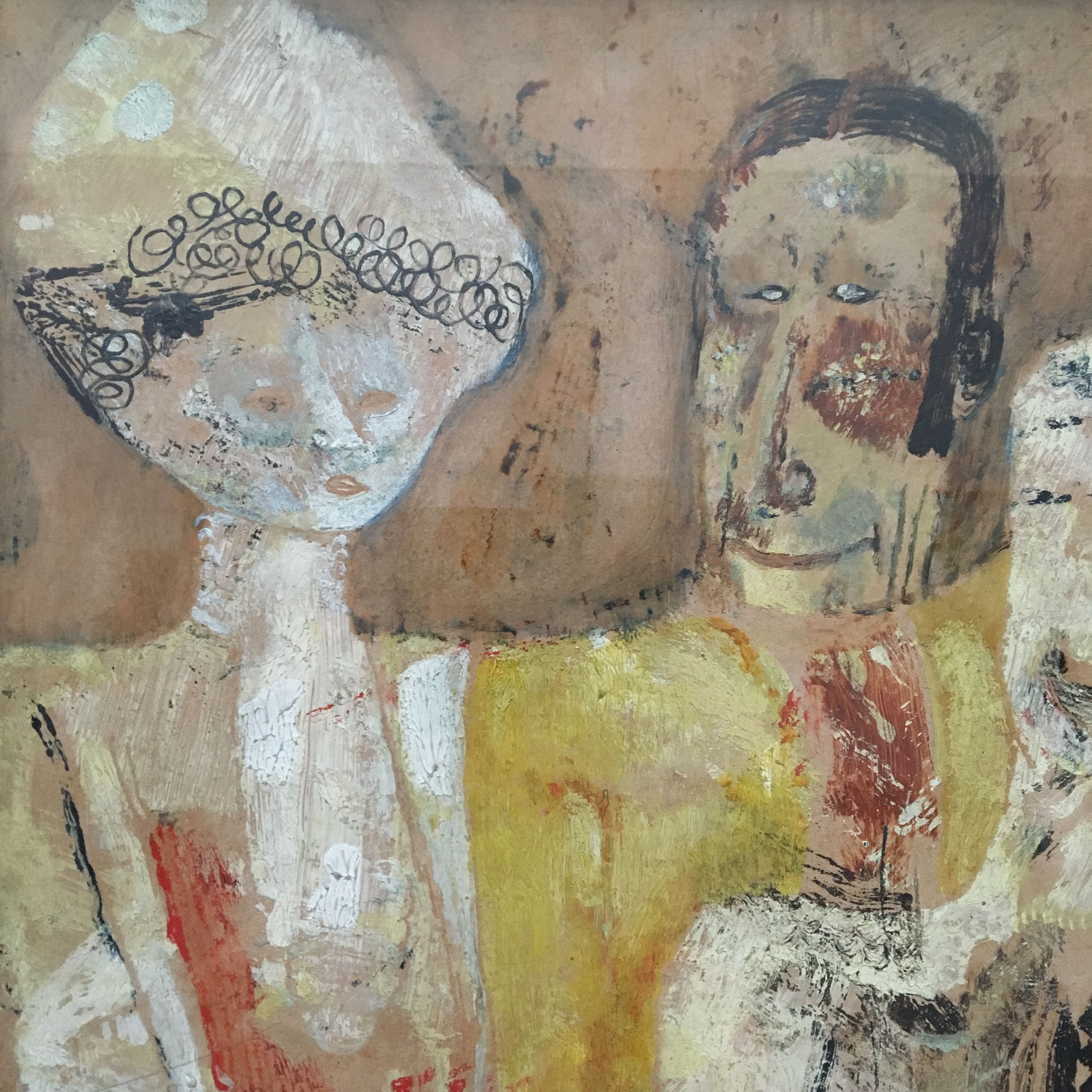 Wiki Loves Art - Gent - Museum voor Schone Kunsten -- Drie personages by Frits Van den Berghe (detail) This is a file created at the museum: Museum of Fine Arts in Ghent